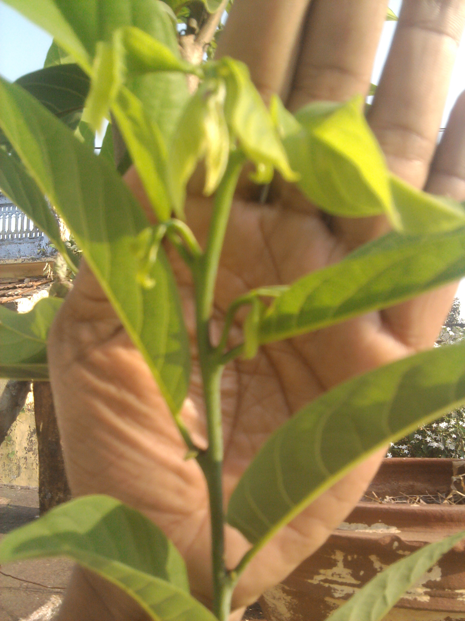 Axil of Tree